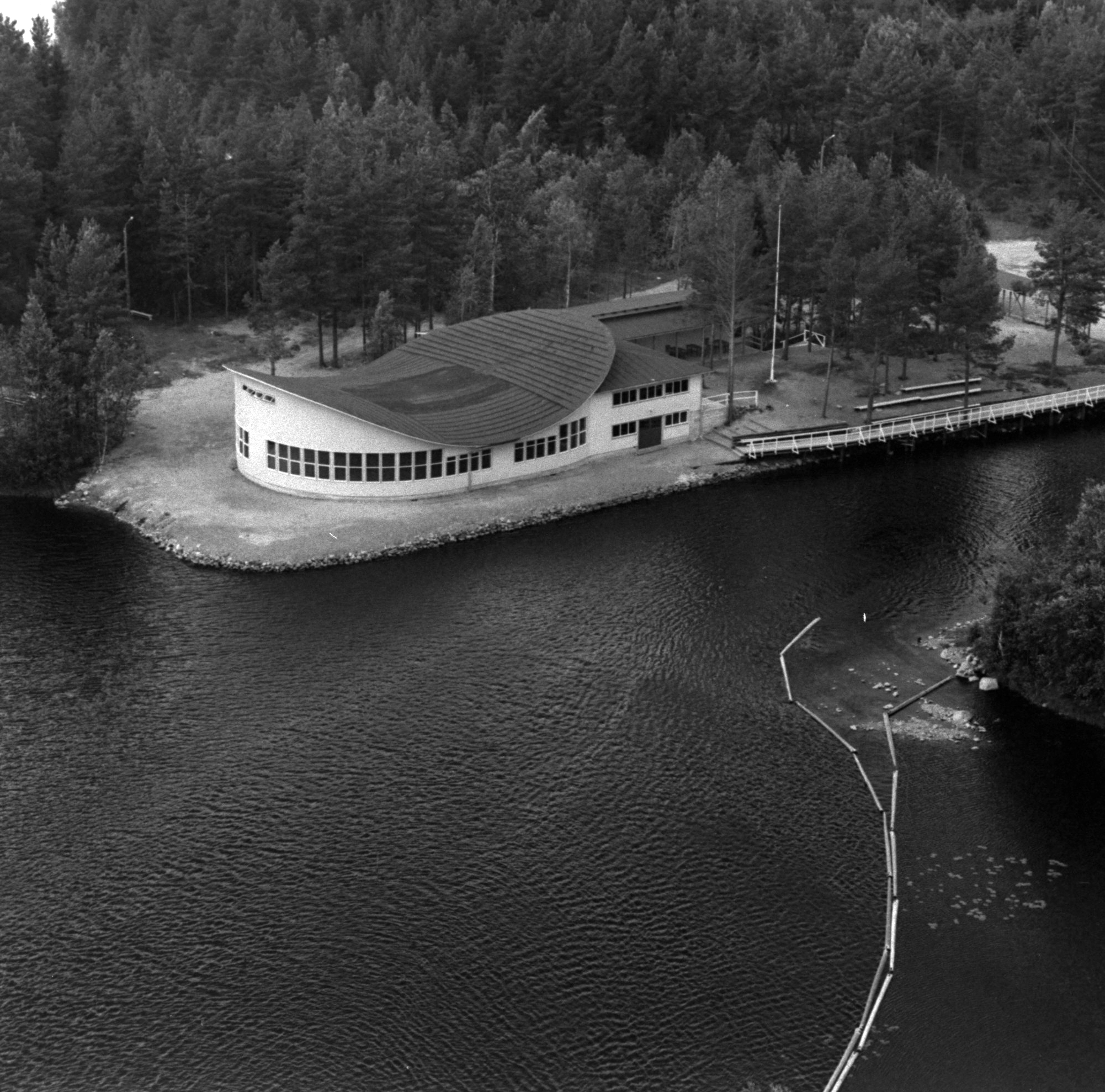 Dance hall in Halkosaari, Lappajärvi.